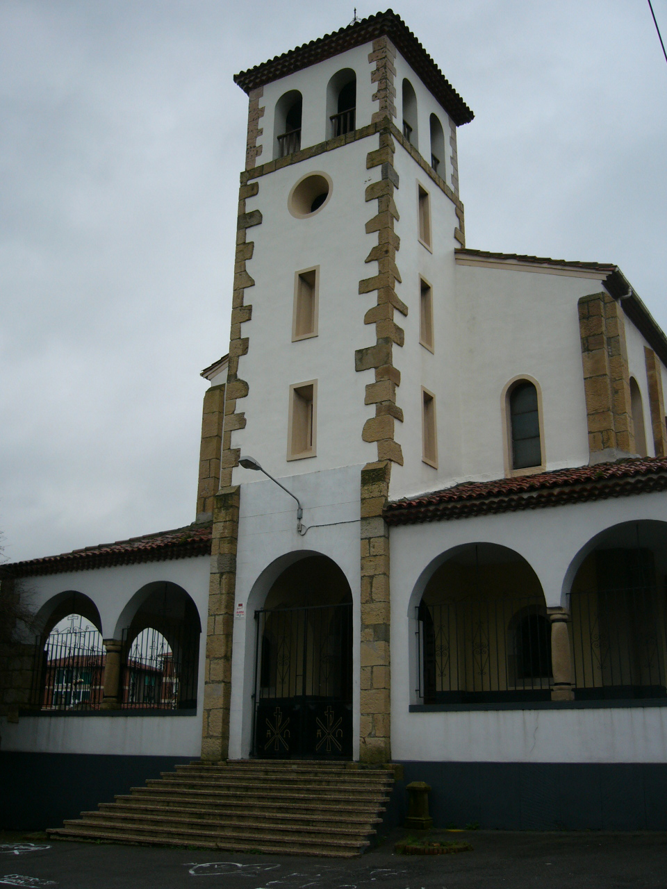 Church of San Vicente of Trasona (1947) (Asturias - Spain)